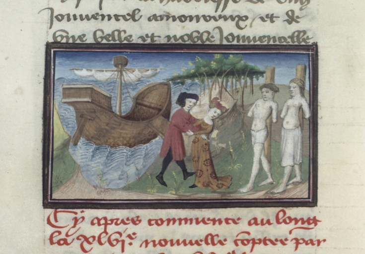 Boccaccio, Decameron, MS BNF Francais 239 f 154v